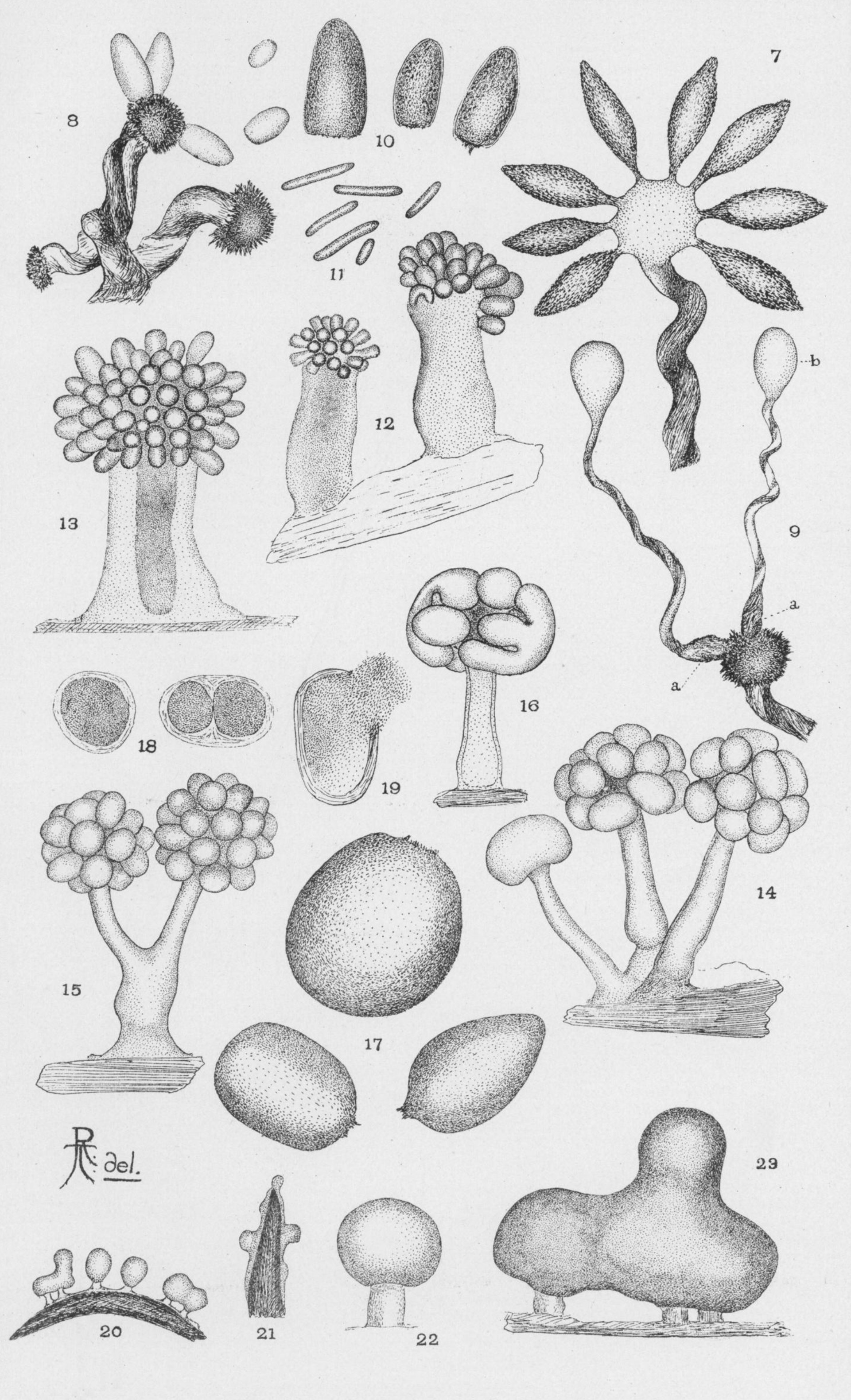 The second of four plates from Thaxter, R. Botanical Gazette 17(12):389-406 (1892) illustrating various species of myxobacteria. This plate illustrates Chondromyces crocatus (figs. 7–11), Stigmatella aurantiaca (figs. 12–19) and Melittangium lichenicola (figs. 20–23). (originally all identified as species of Chondromyces)